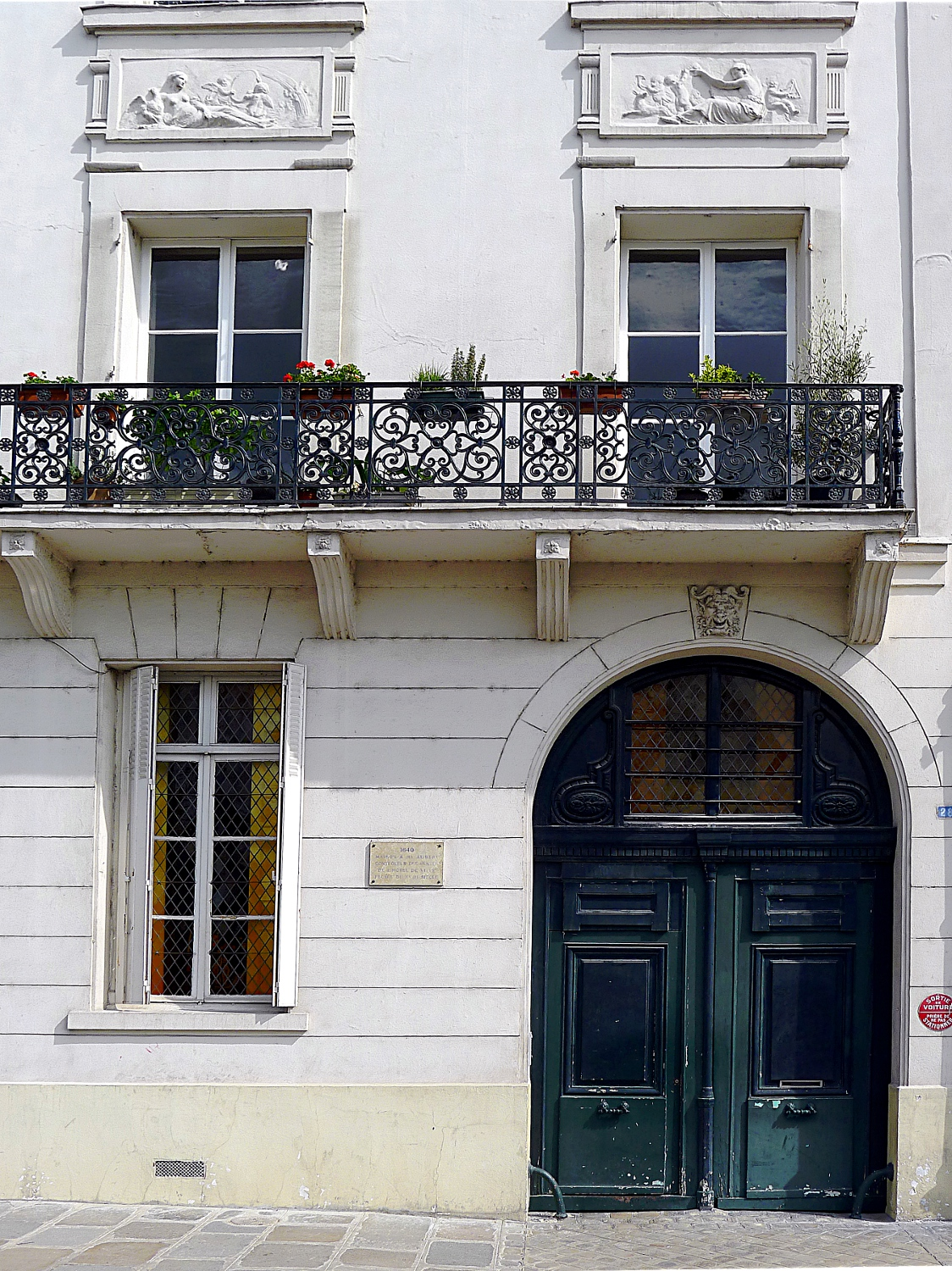 Quai de Béthune - Paris